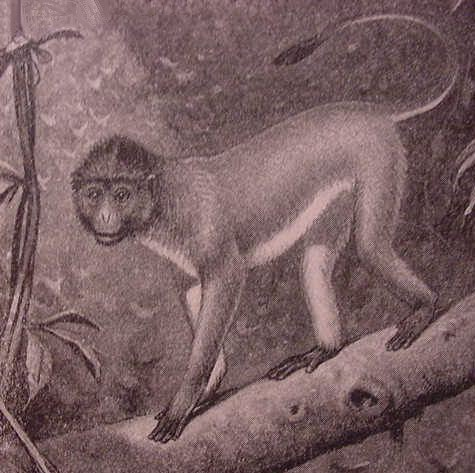 Javan Surili, Presbytis comata